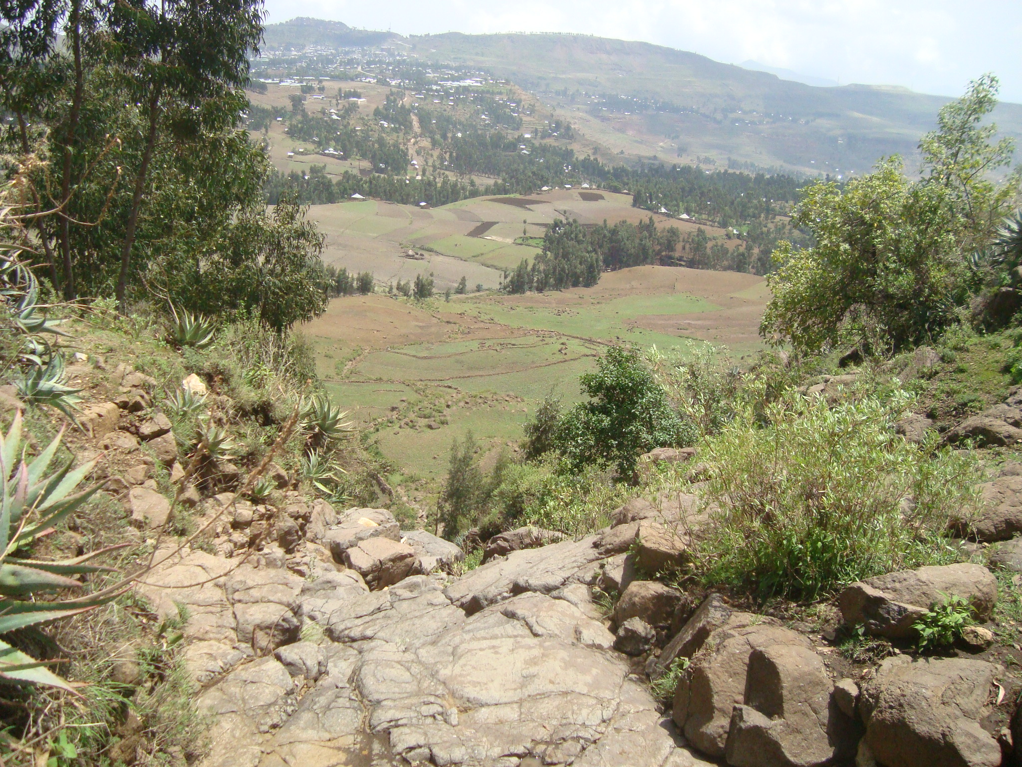 Alaji Basalts near the peak of Gumawta Mt. in Dogu'a Tembien, Ethiopia